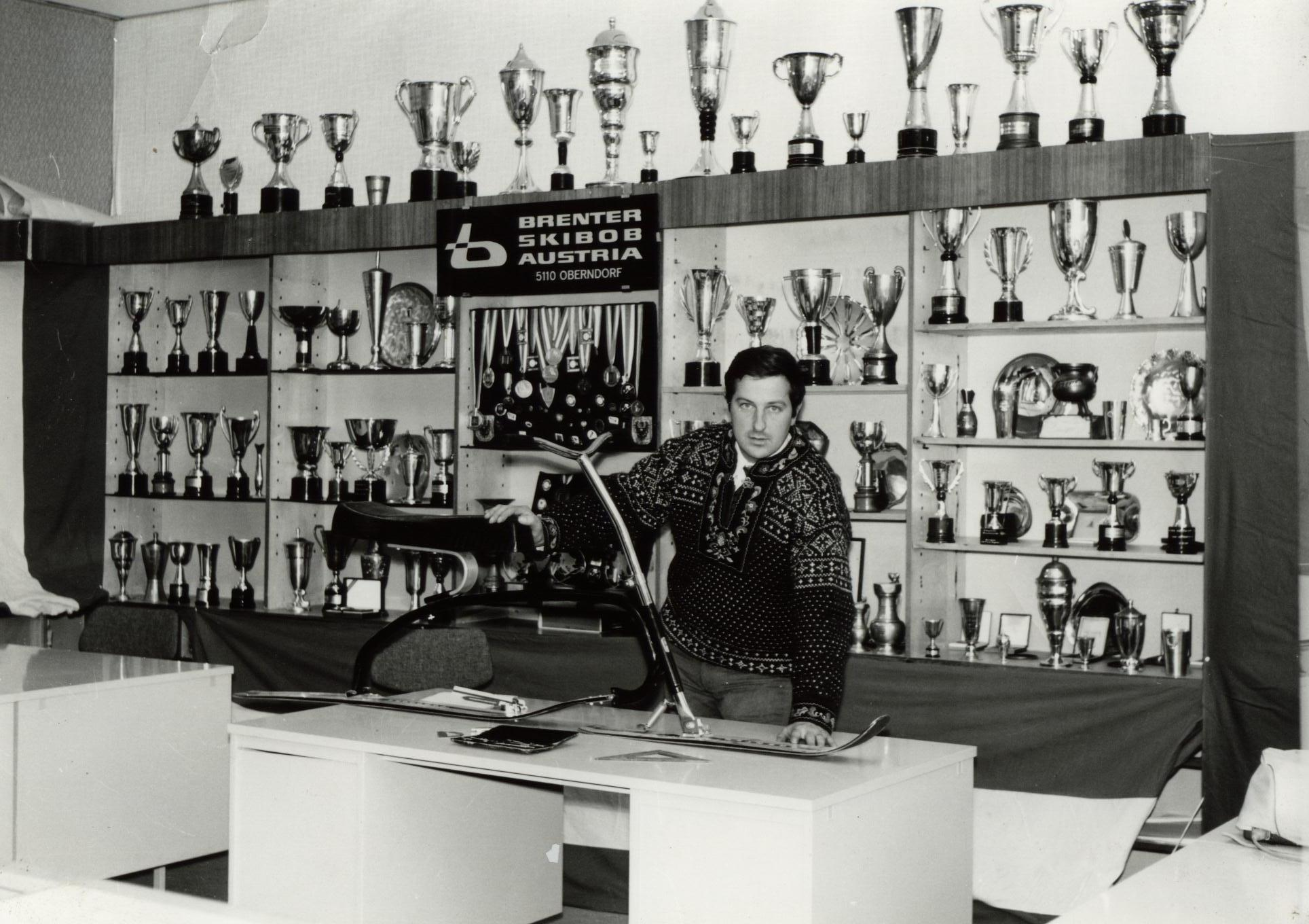 World Record holder Erich Brenter in front of his trophies (Skibob, Skibike, Snowbike)